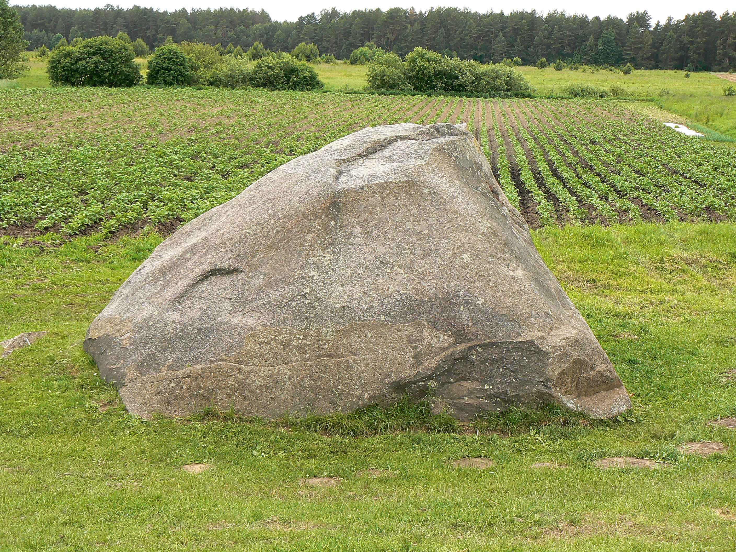 "Devil Stone" in Švendubrė village, Liethuania.